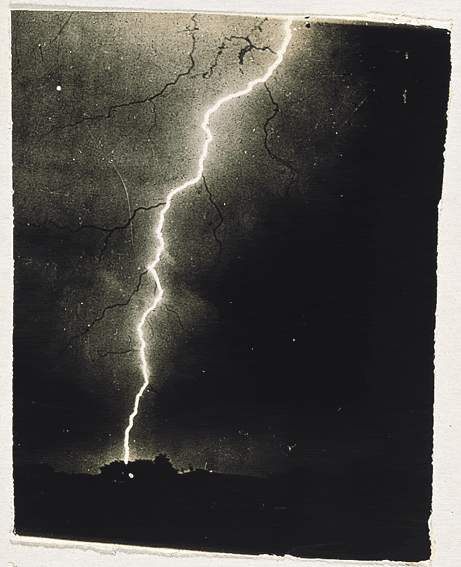 Lightning 1882